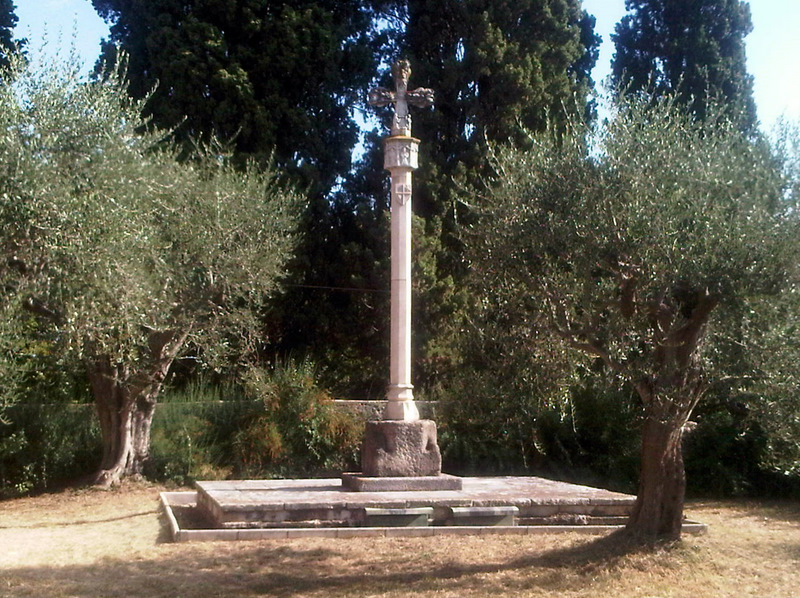 Grave of Guinness Family, by the ND de Vie Chapel, in Mougins, France